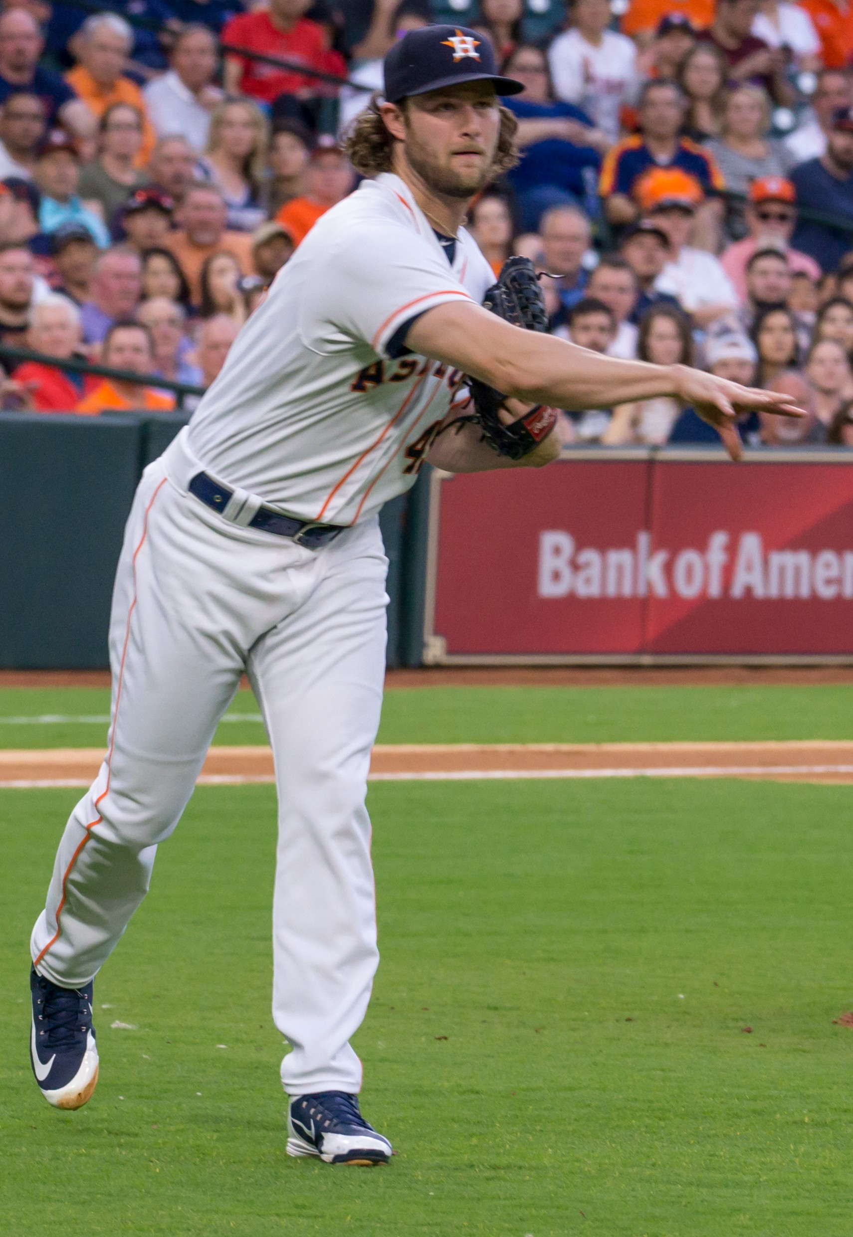 Astros vs Angels